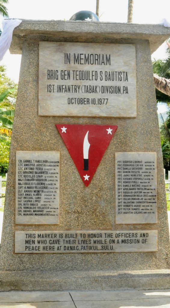 Image cropped from original of memorial marker. The stone shrine is a tribute to AFP Brig. Gen. Teodulfo Bautista and his 34 men who were killed Oct. 10, 1977 while attempting to conduct peace talks.